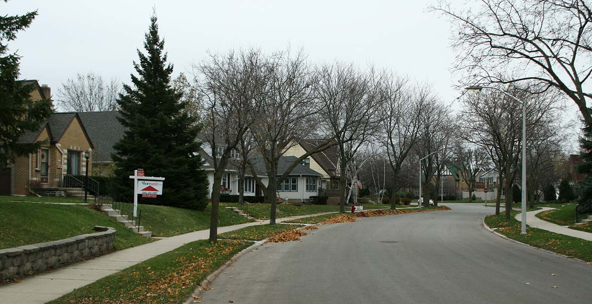 Juneau Highlands Residential Historic District, West Allis Wisconsin. National Registered Historic Place. Scene looking south on Livingston Terrace.